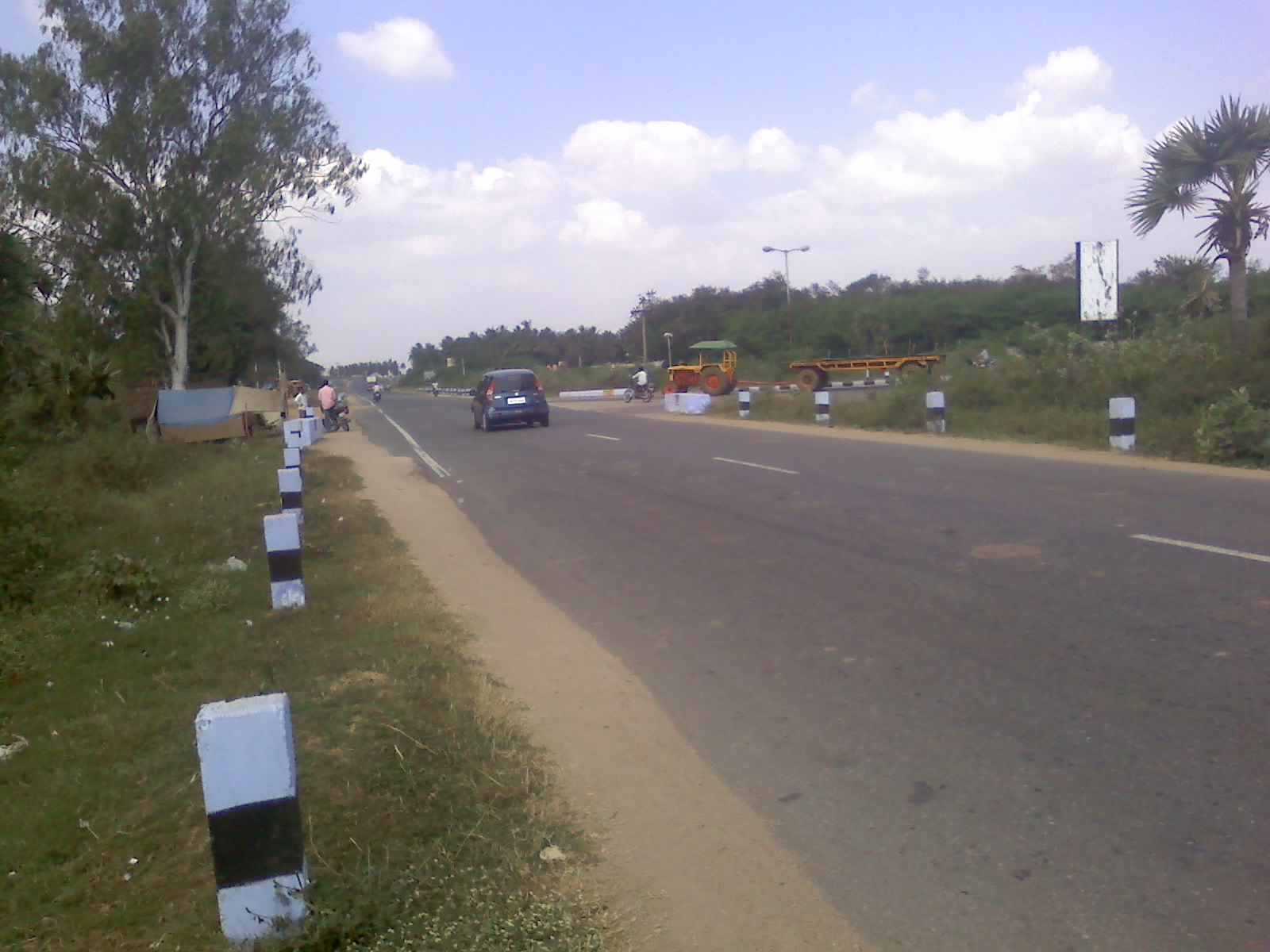 National Highway 40 (Former NH 4) at Thiruvalam, Tamil Nadu.